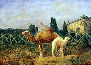 Develer (Hüseyin Zekai Paşa).